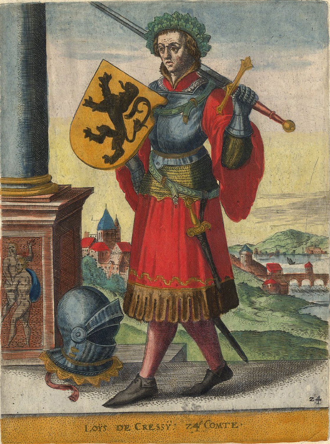 Louis I of Flanders